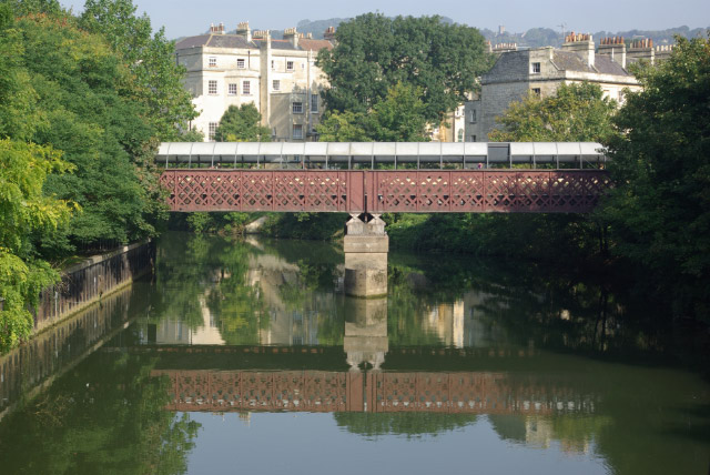 River Avon, Bath Looking downstream from Midland Bridge. The bridge immediately ahead once carried the railway out of Green Park station but now carries a road.